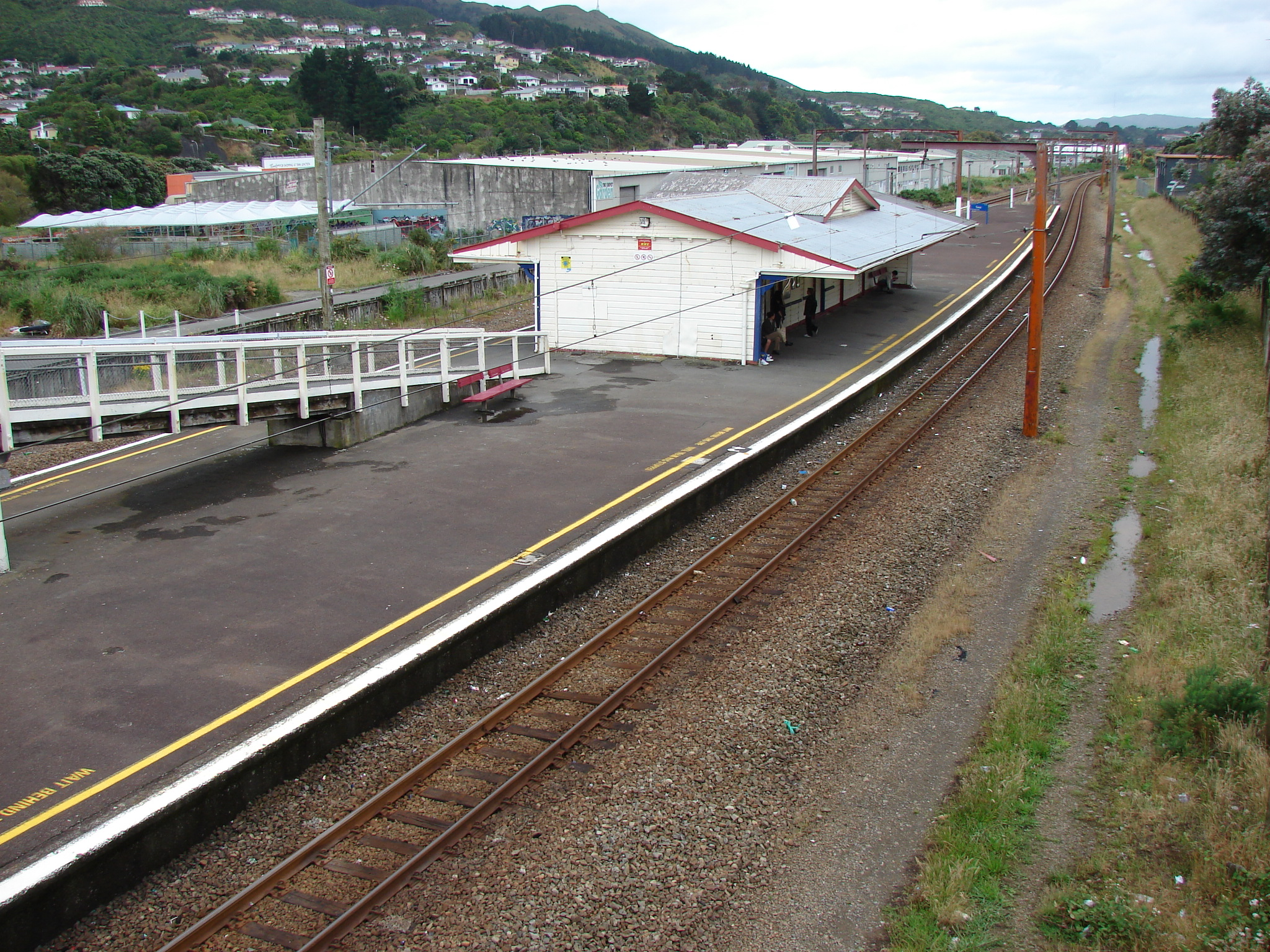 Tawa railway station, looking north.